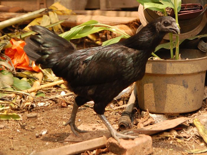 AYam Cemani (Black Chicken) special chicken originally breed of Indonesia.